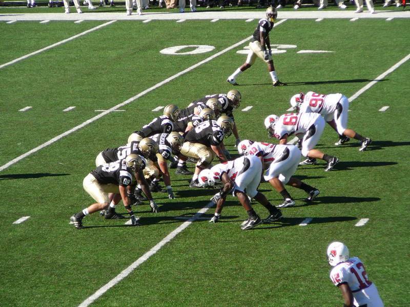 Western Michigan University American football team vs. Ball State University.